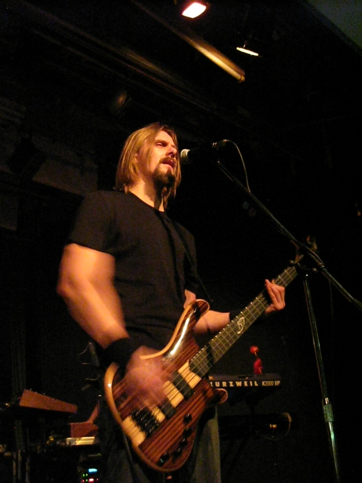 Mariusz Duda from Riverside at Lydney Town Hall. 2007-11-29.